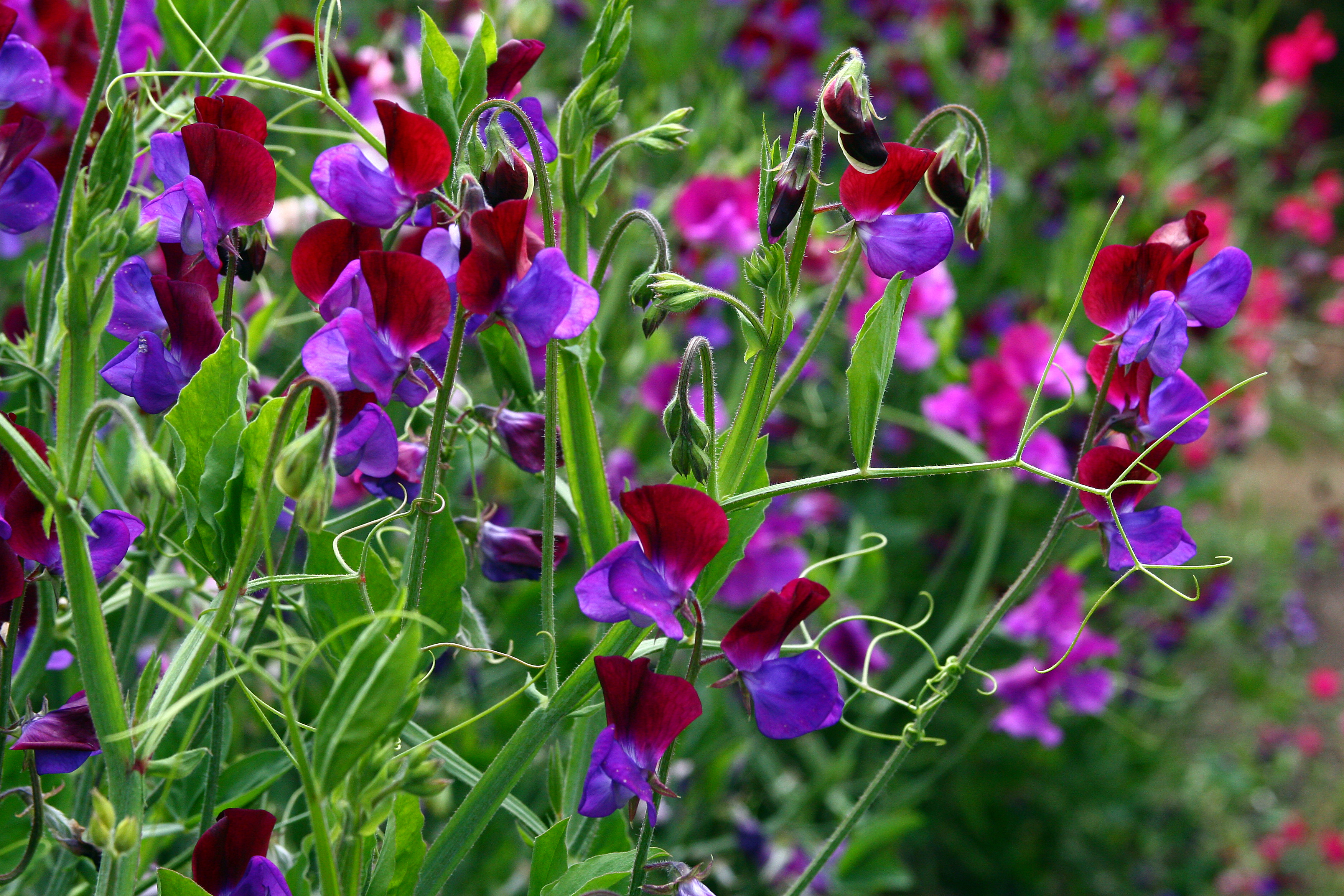 sweetpeas